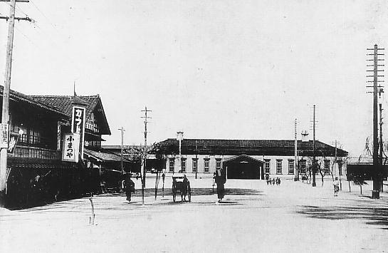 Kanazawa Station in Meiji era